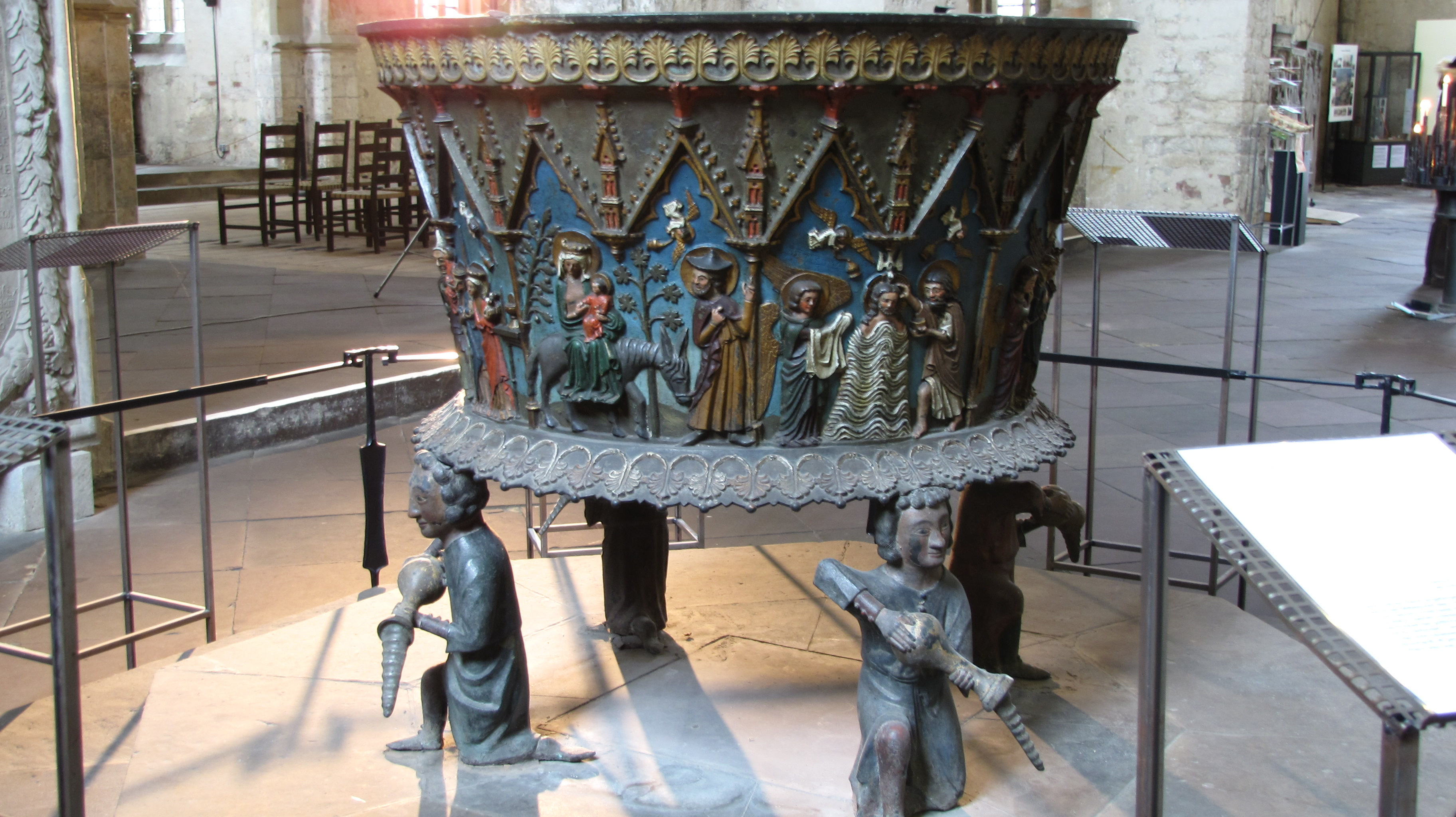 Baptismal font in St. Martini, Halberstadt